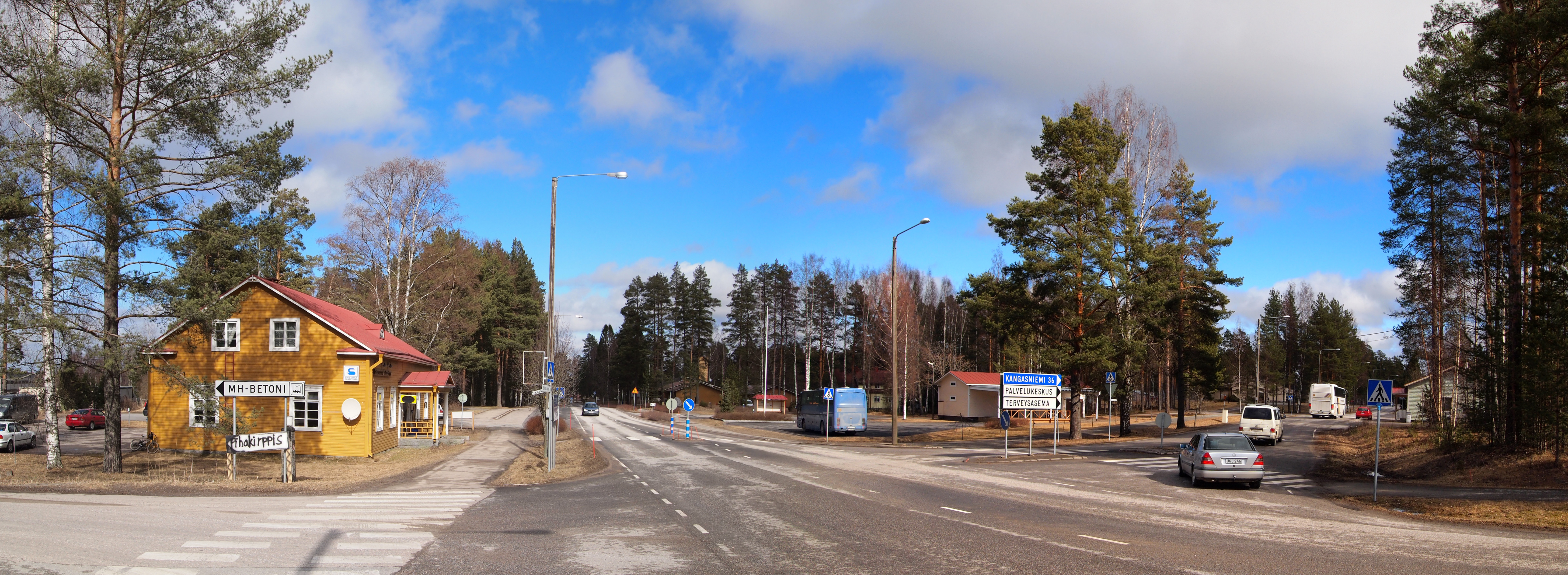 Regional road 618 (Toivakantie) in Toivakka, Finland.